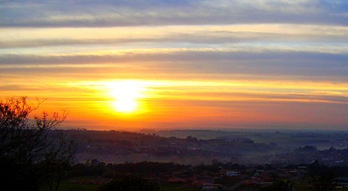 Sunset